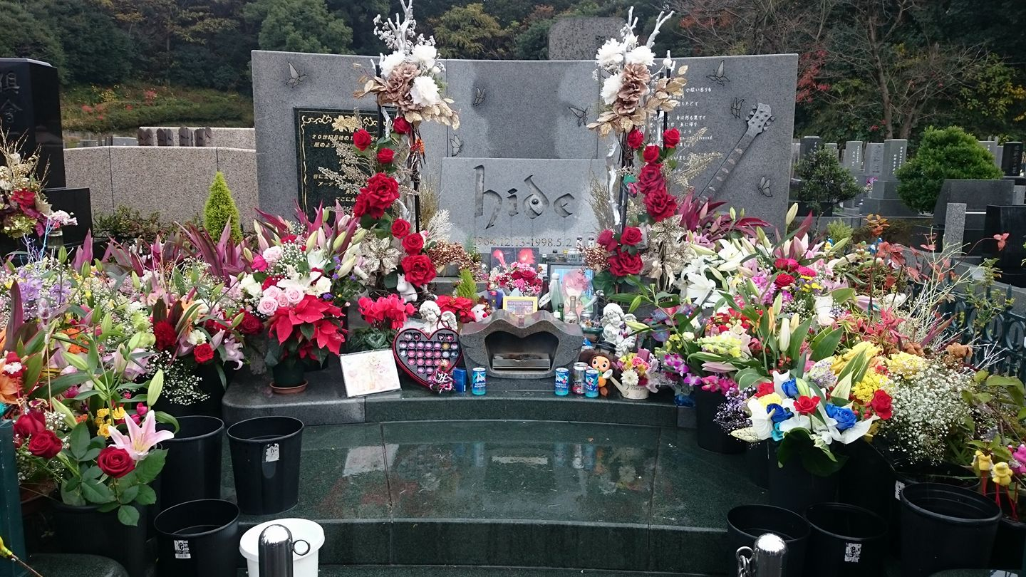 Hide's Headstone